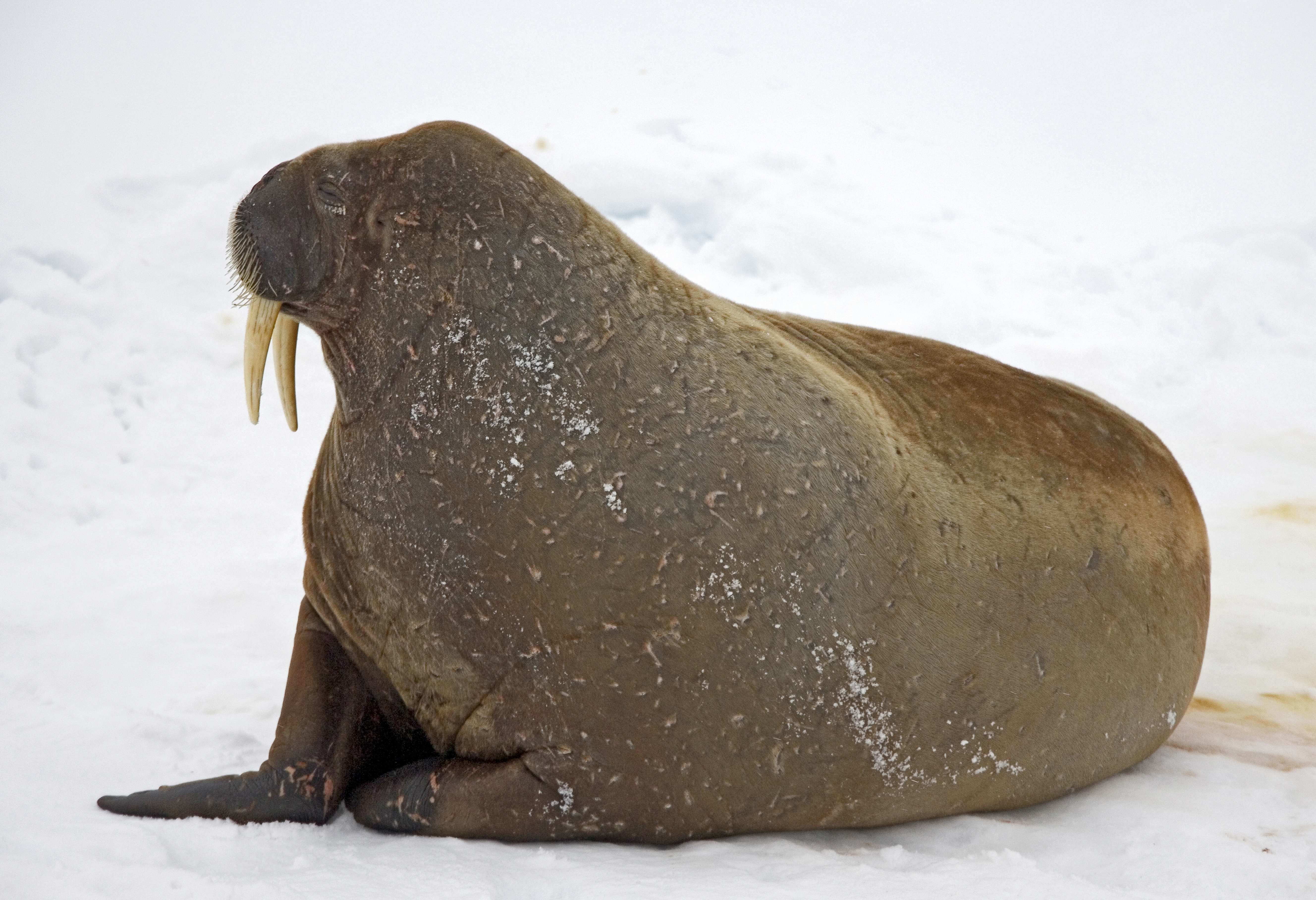 A walrus on the ice in the Arctic Ocean north of western Russia. Odobenus rosmarus rosmarus - the Atlantic subspecies of walrus. Arctic Ocean.